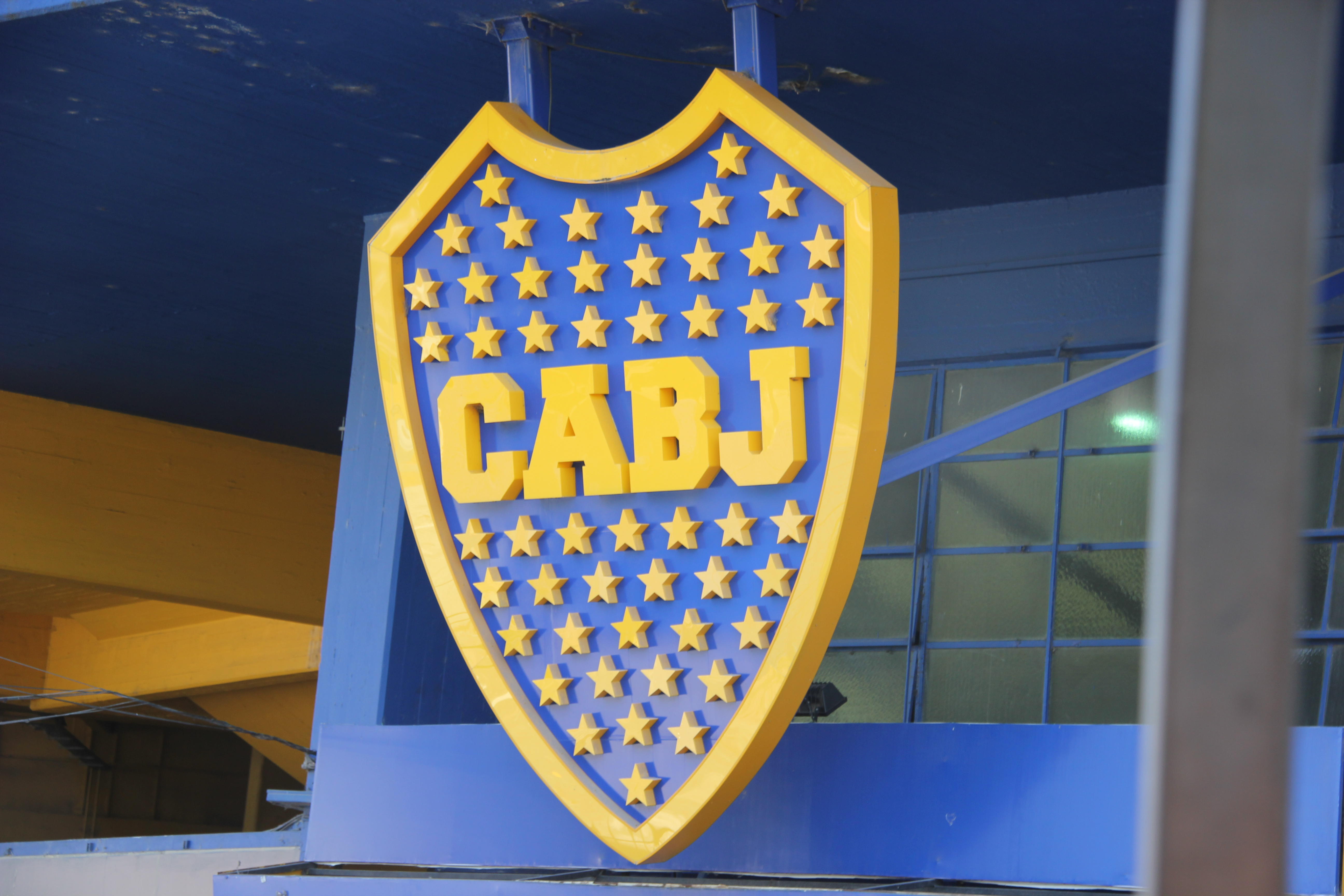 Logo of the Boca Juniors on the stadium exterior.